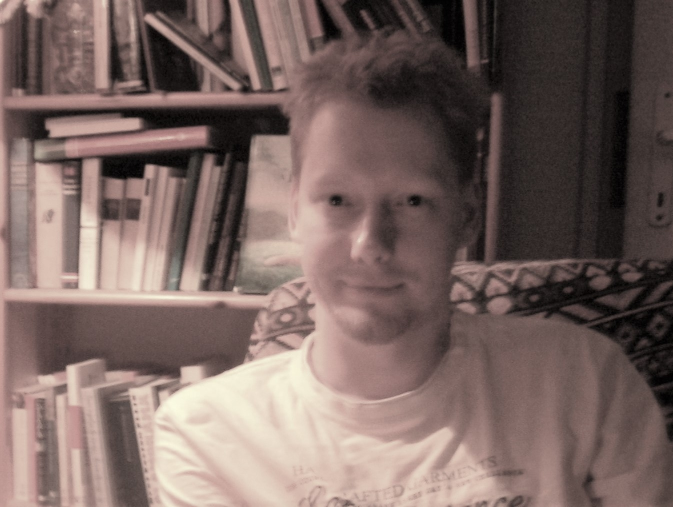 Péter Pollágh (Budapest, 2013)